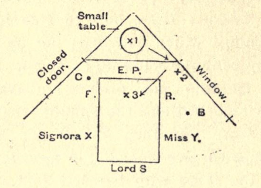 A sketch showing the 8th séance sitting held on December 10th, 1908 at Naples with Eusapia Palladino. B = W. W. Baggally C = Hereward Carrington E. P. = Eusapia Palladino F = Everard Fielding R = Mr. Ryan (visitor)